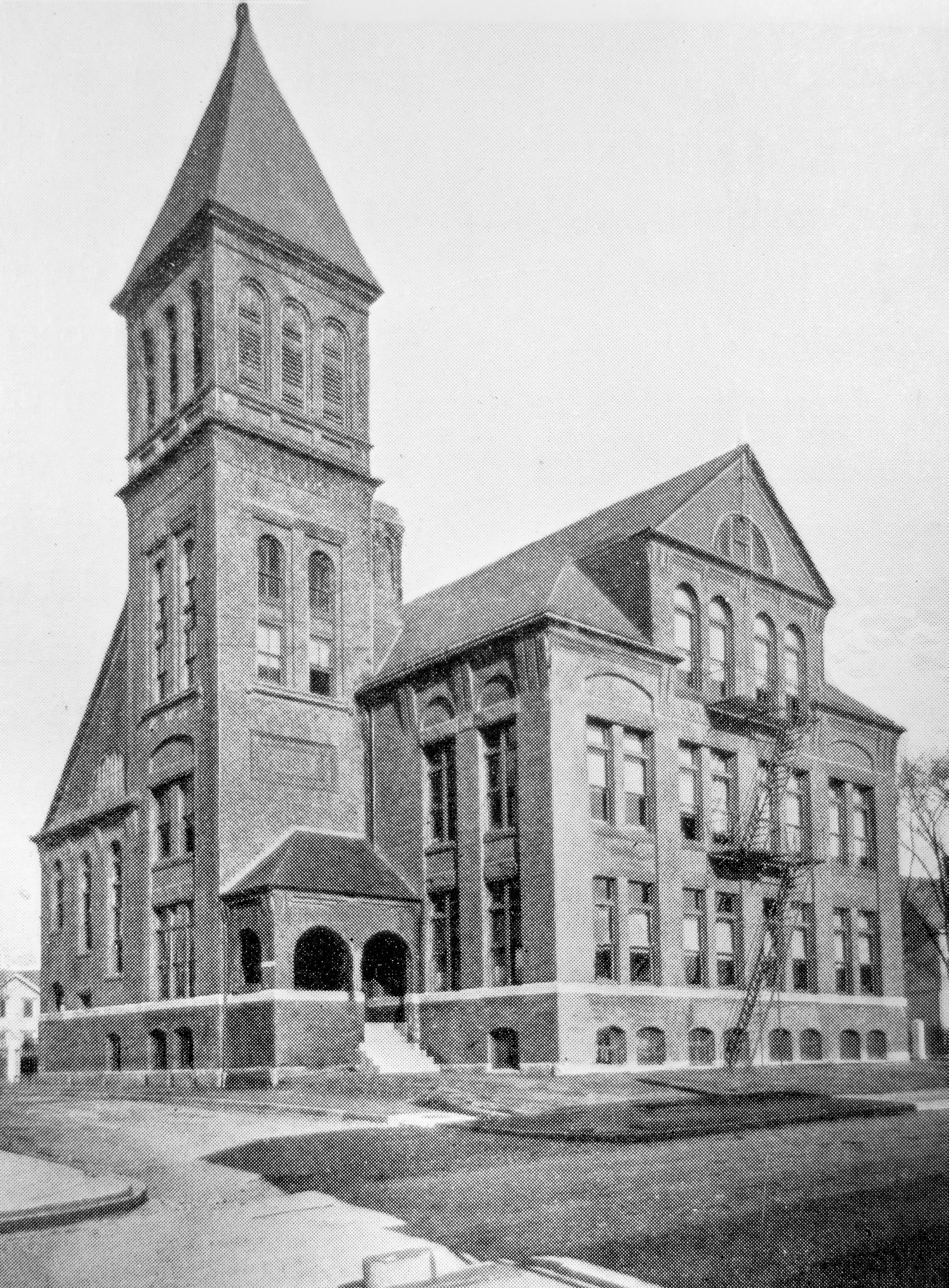 Church Hill Grammar School, Pawtucket Rhode Island. Source: An Illustrated History of Pawtucket, Central Falls, and Vicinity, by Robert Grieve, 1897.